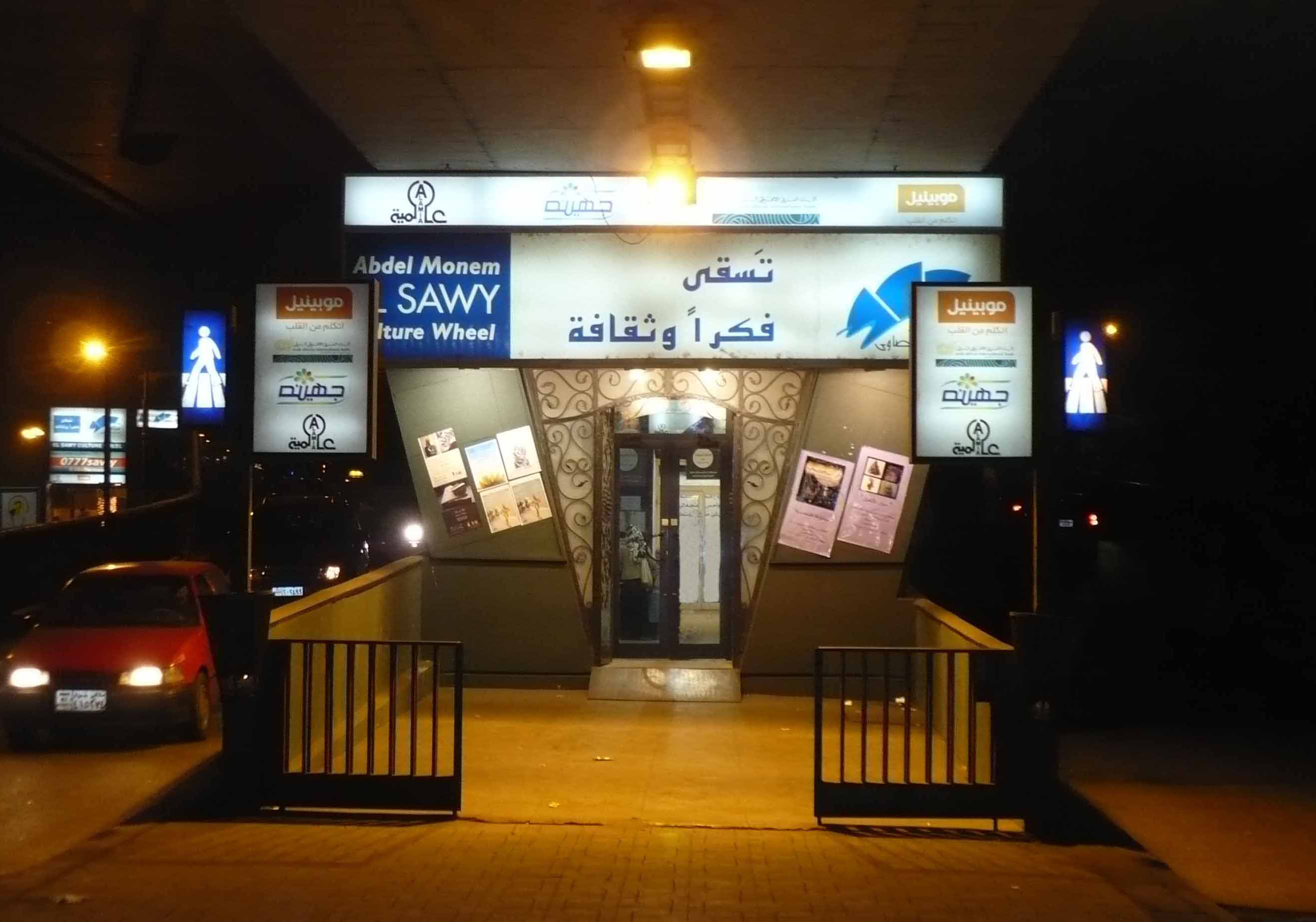 sakia culture wheel